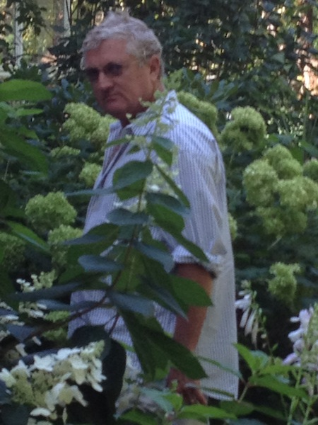 Walter Robinson amidst green foliage, New York State, 2012